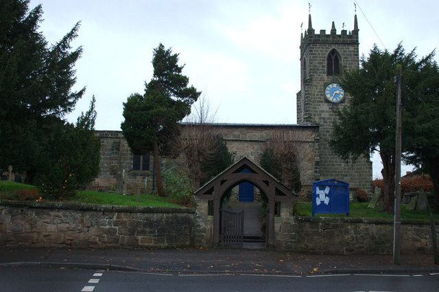 St Peter's Church, Chellaston The church dates from the 14th or 15th century with the tower being rebuilt in 1842 (according to Pevsner).